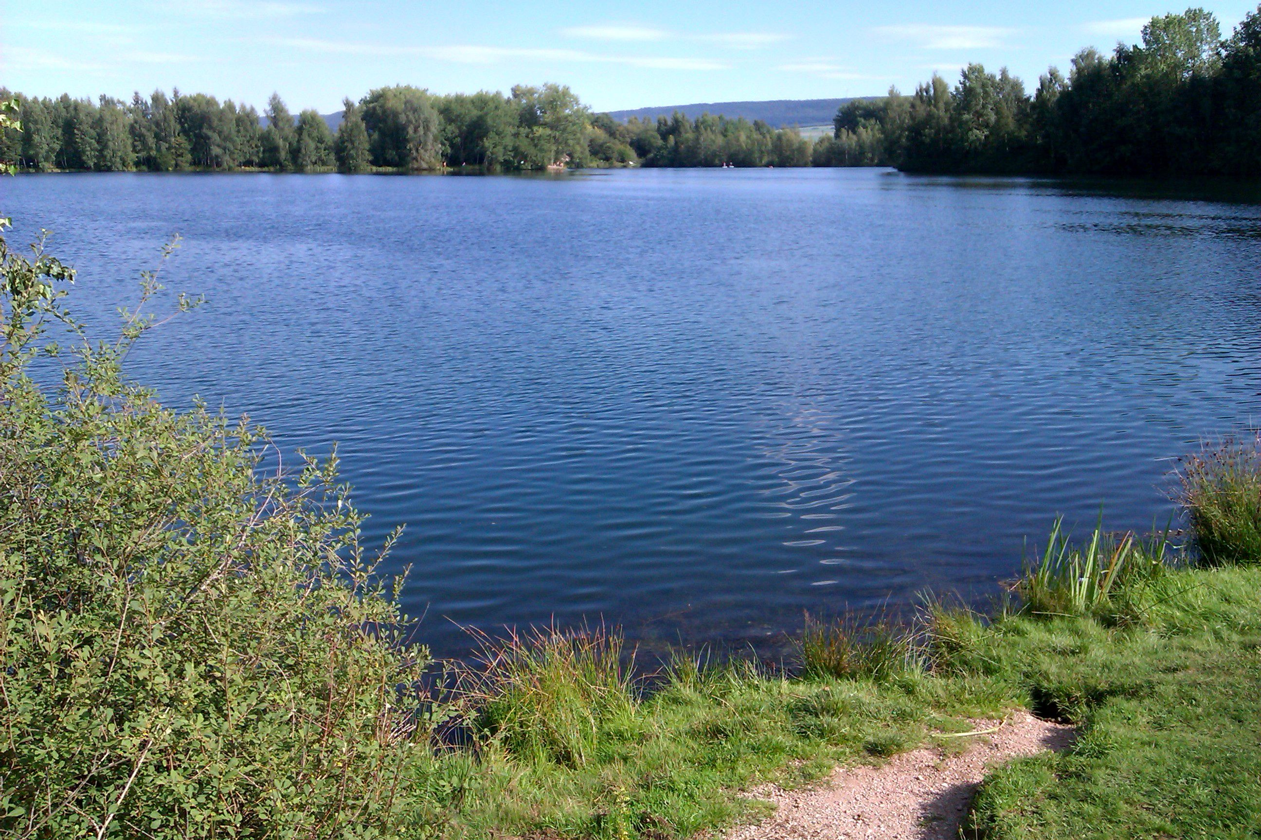 Eastern section of the Riedsee lake, Donaueschingen